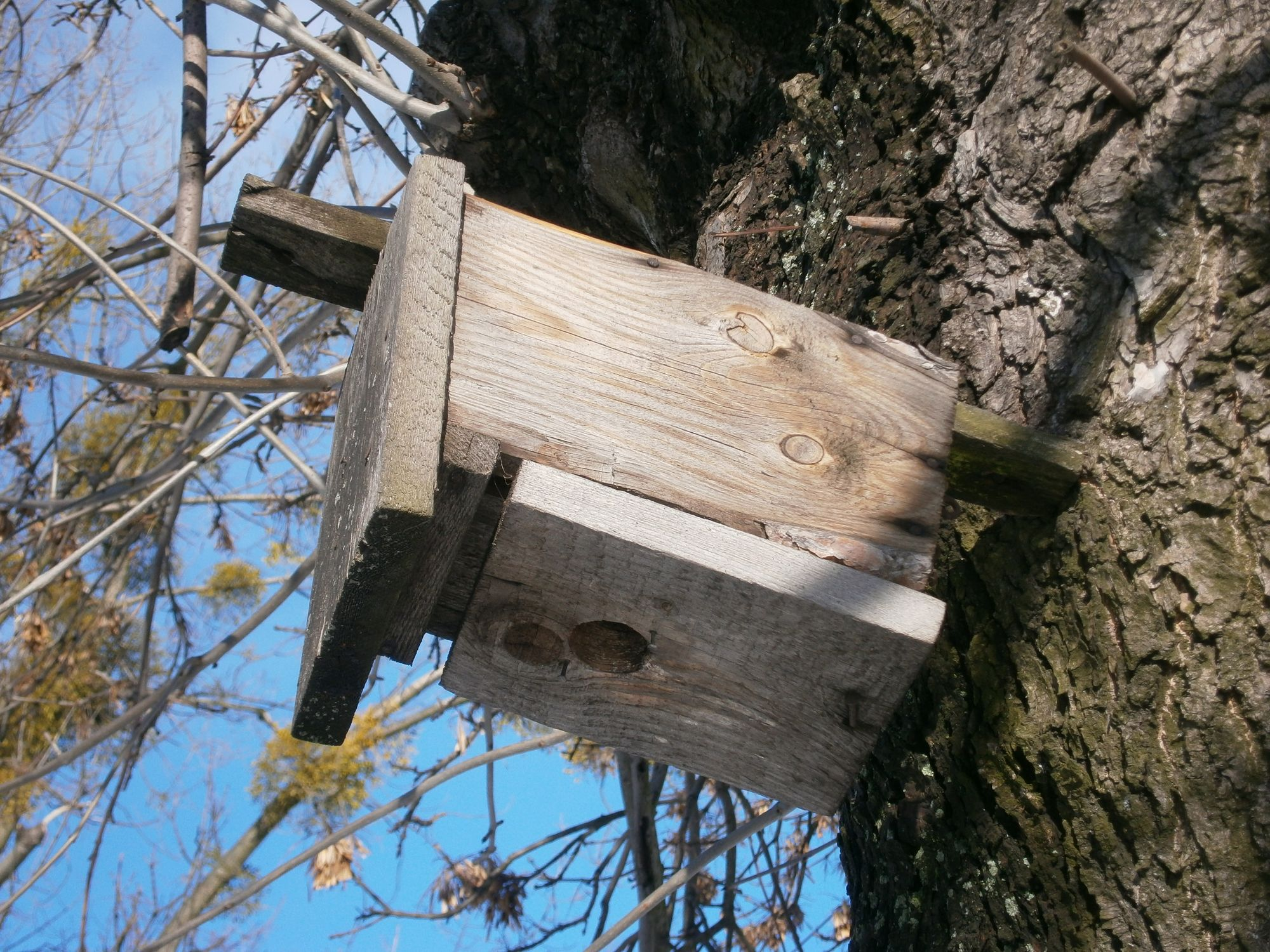 Broken birdhouse, hanging on one nail.